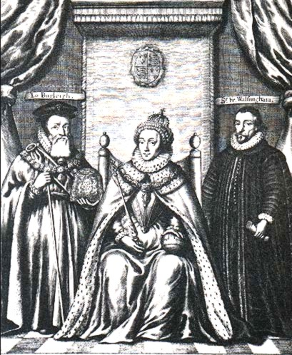 Engraving of Queen Elizabeth I; William Cecil, 1st Baron Burghley; and Sir Francis Walsingham